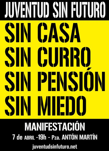 logo Juventud Sin Futuro